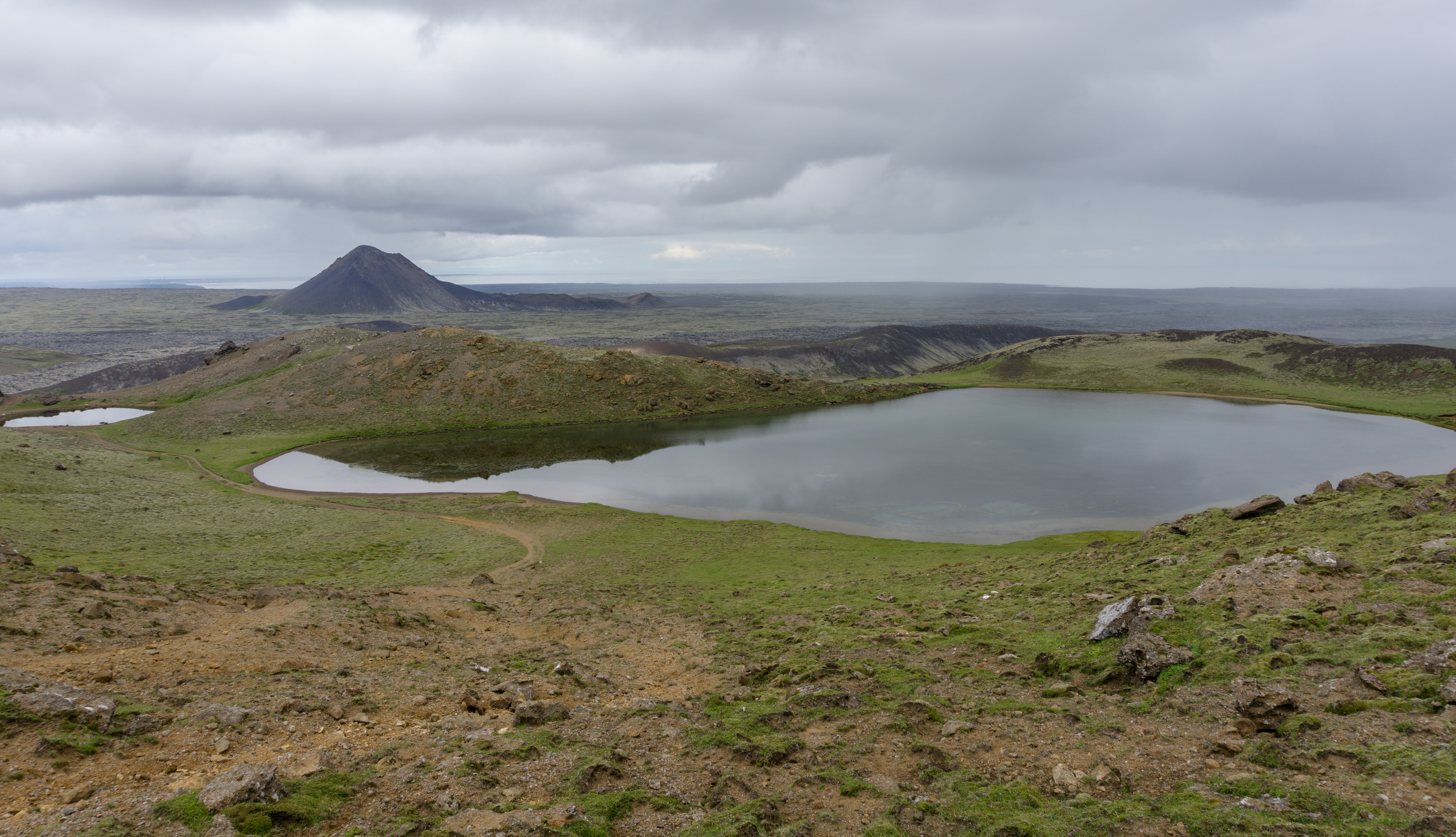 Lake Spákonuvatn, taken from the hiking trail Reykjavegur, Iceland